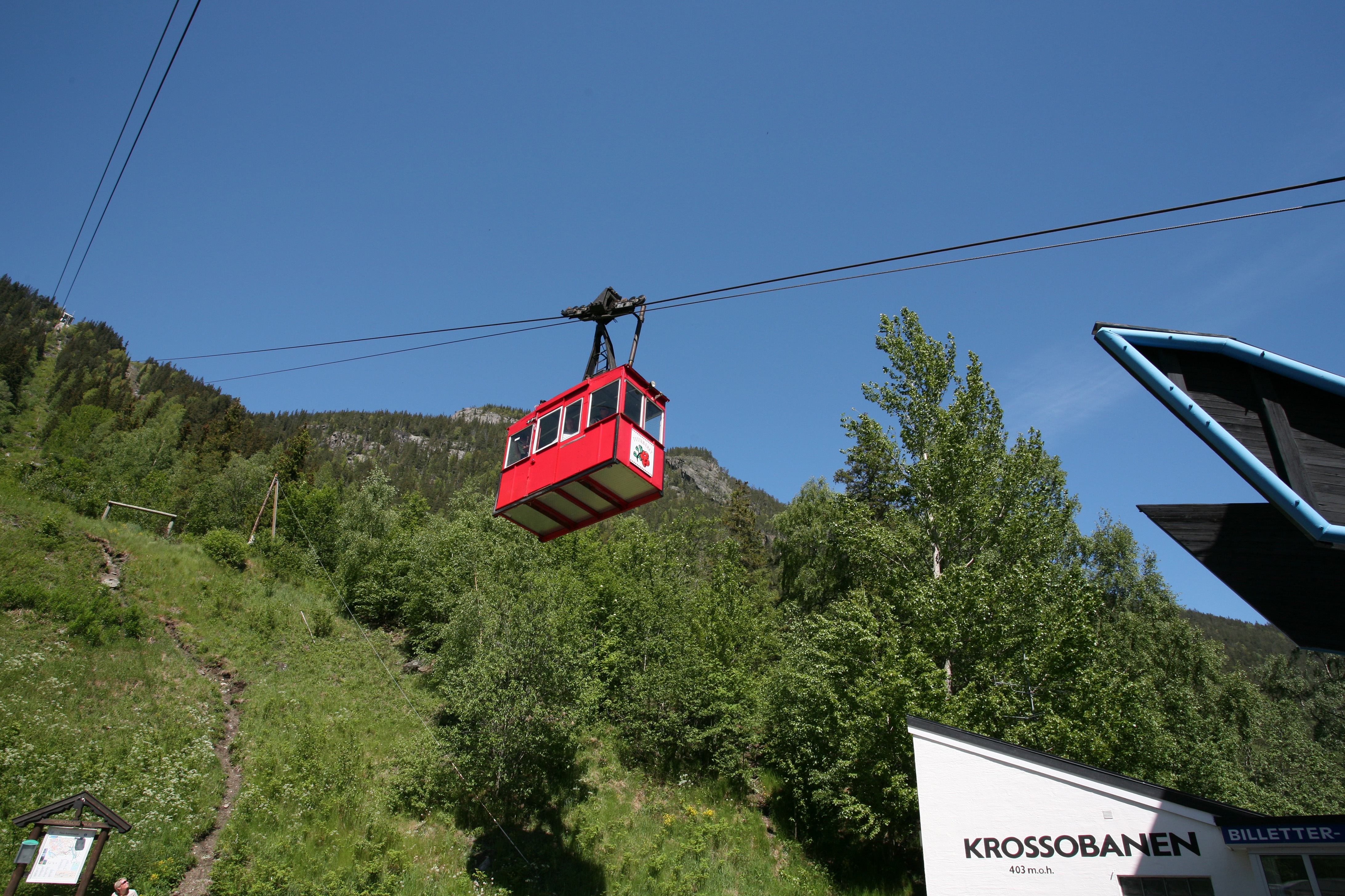 Picture of Krossobanen (Rjukan - Norway)